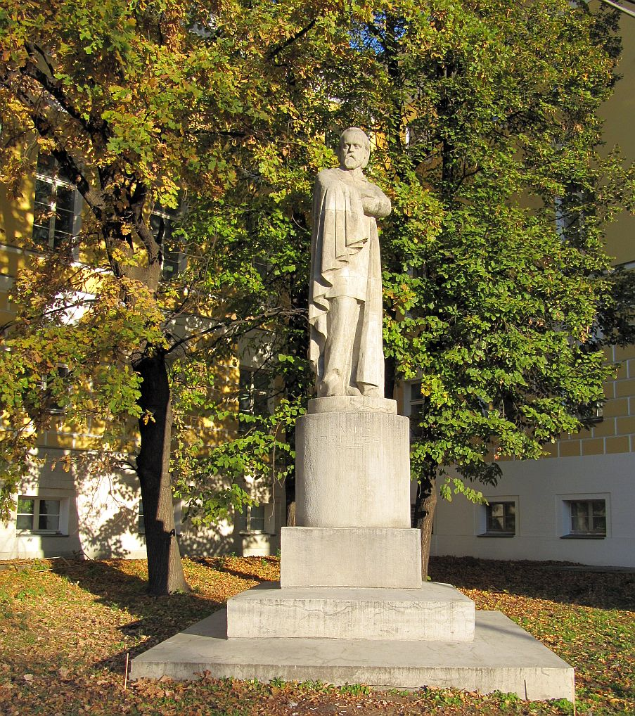 Monument to the prominent Russian writer Alexander Herzen in the courtyard of the Moscow State University. He studied here. It was established by sculptor Nikolay Andreev in 1920